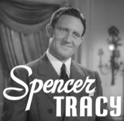 Cropped screenshot of Spencer Tracy from the trailer for the film Libeled Lady (1936).